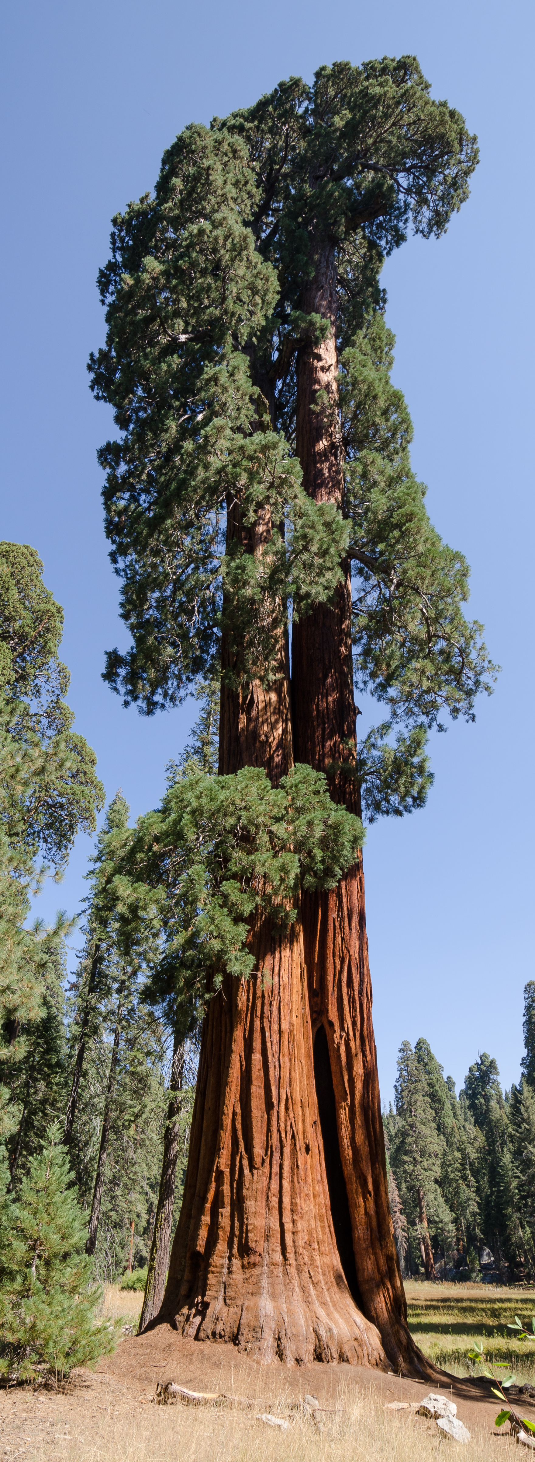 A pair of intertwined Giant Sequoia trees in Sequoia National Park, California.